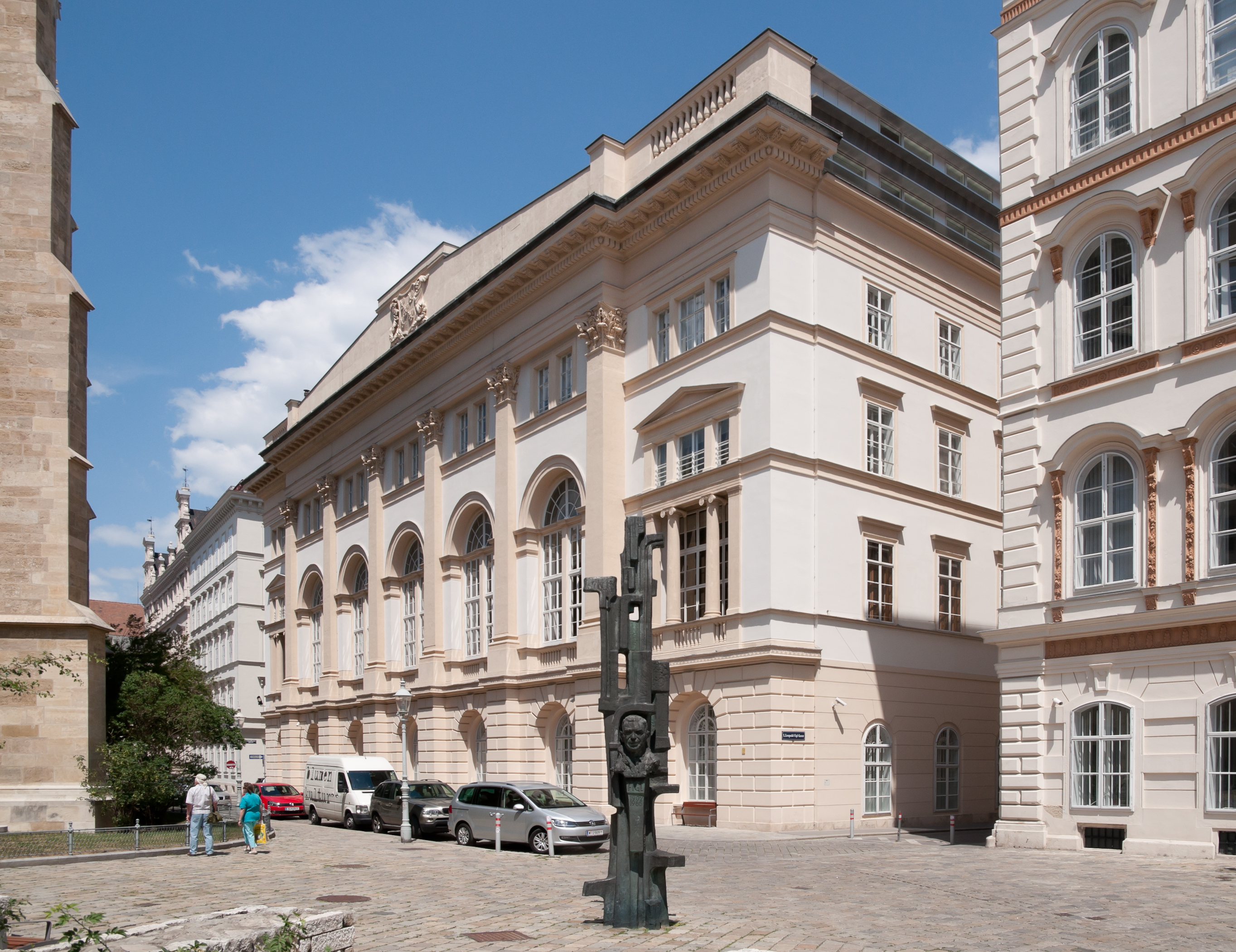 The former building of the Estates House of Lower Austria nowadays known as Palais Niederösterreich in Vienna.